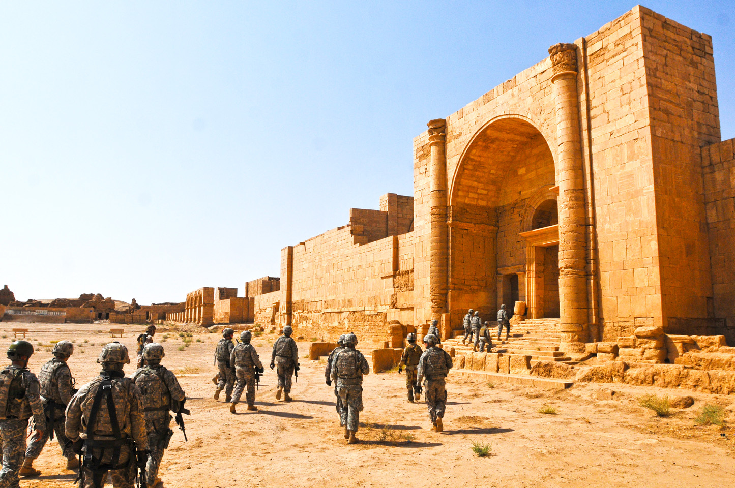 After an early morning Key Leader Engagement, soldiers from Crazy Troop, 3-7 Cavalry, 2HBCT, 3ID, take a small detour to Al Hatra, an ancient ruined city located southwest of Mosul in the Al-Jazarah region and do a little site seeing before heading back on a three hour convoy to Contingency Operating Site Marez, Sept 18.